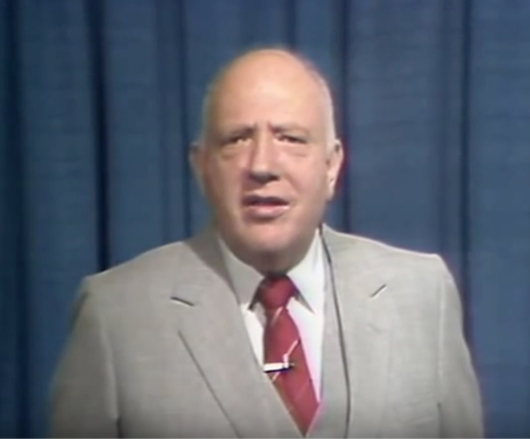 Herbert Gross on video Arithmetic Gem - Place Value (2013